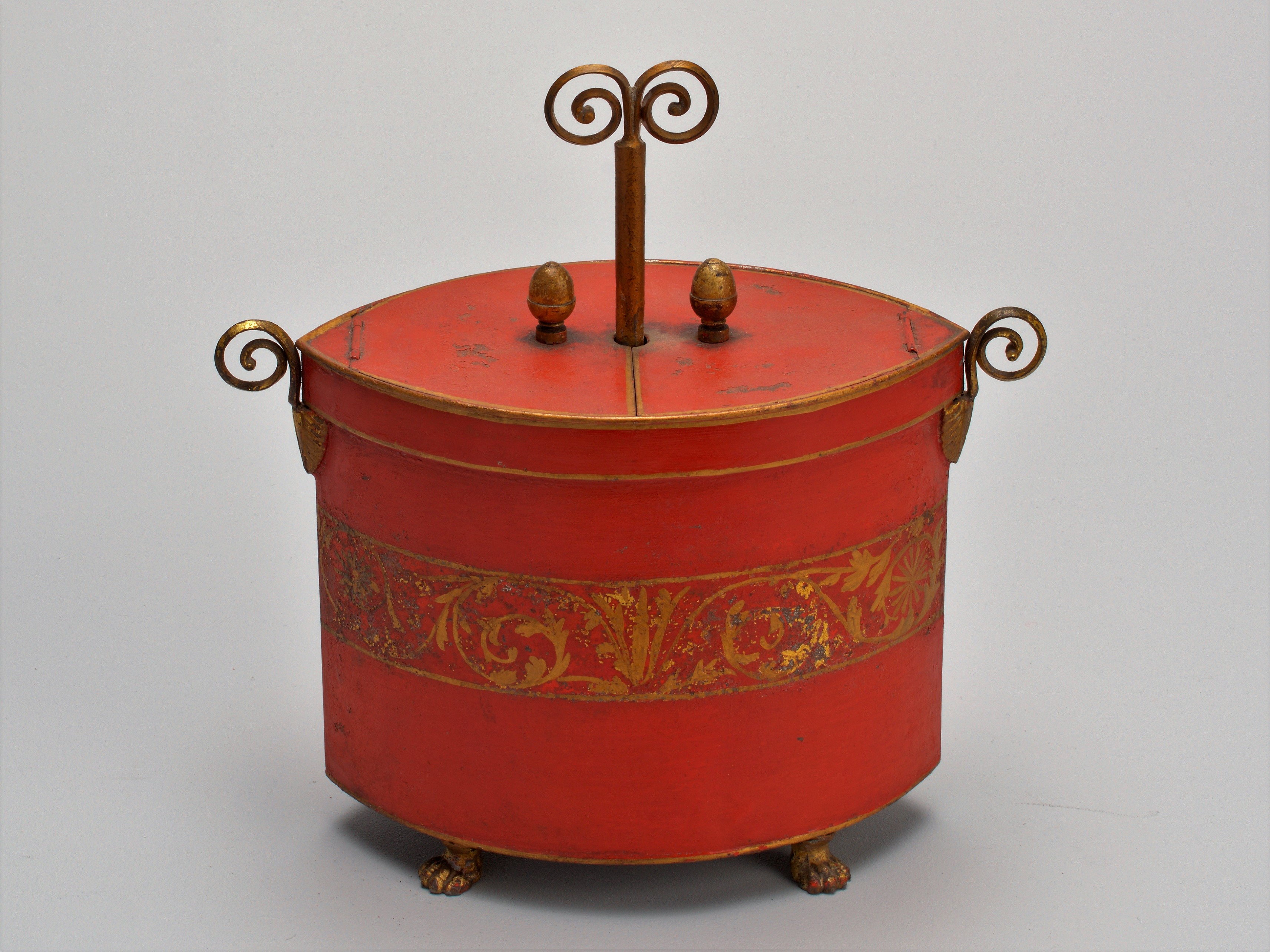 Painted oval in plan, with four paw feet, two volute handles and two acorn knobs on flat, two-leaved hinged cover. Red ground with band of gilt foliate scrolls. see above